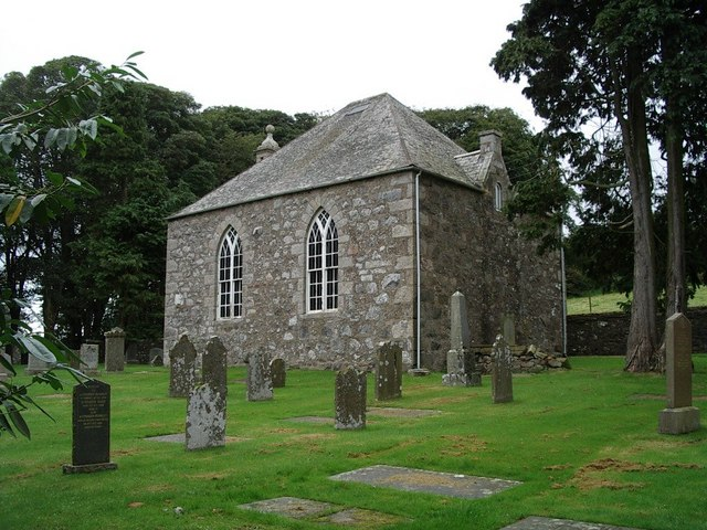 Bourtie Kirk